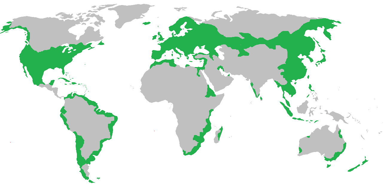 Description Better viewable map, better quality. Used same data from old file. Converted to SVG. Own WorkOther versions Based on Better viewable map, better quality. Used same data from old file. Converted to SVG.